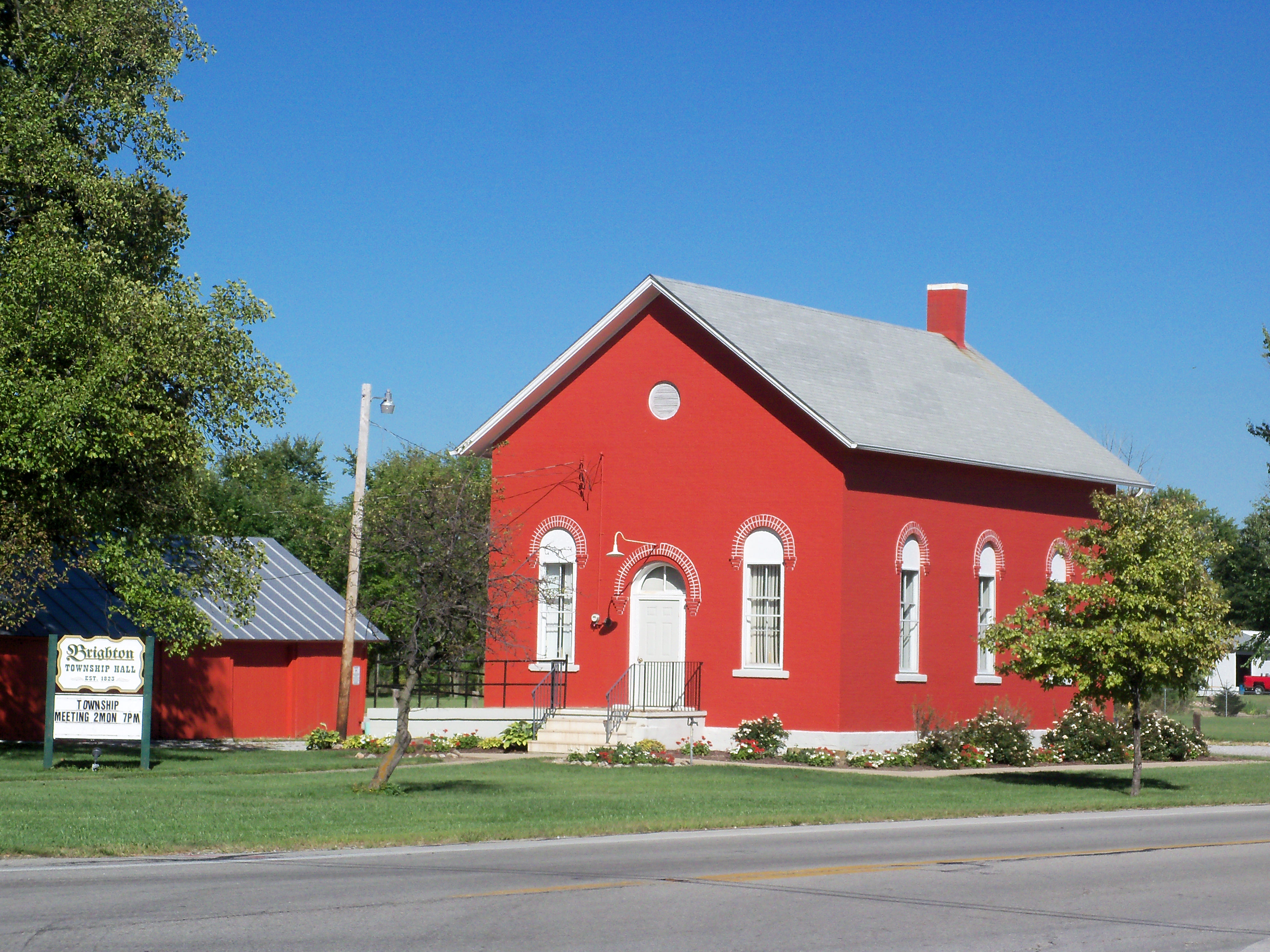 Township hall photographed on a sunny day at Brighton Center, Ohio